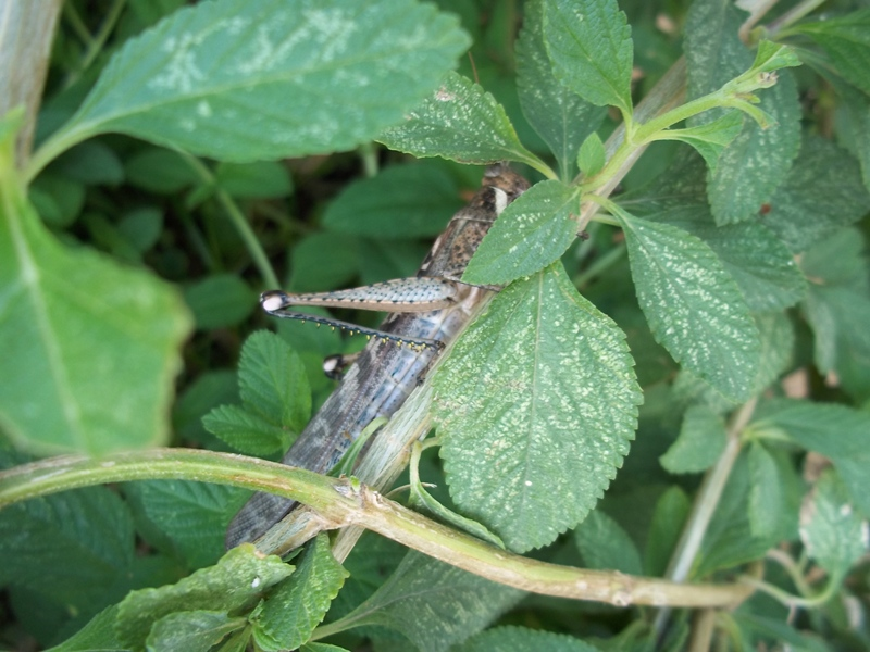 Grasshopper on the Lemon balm